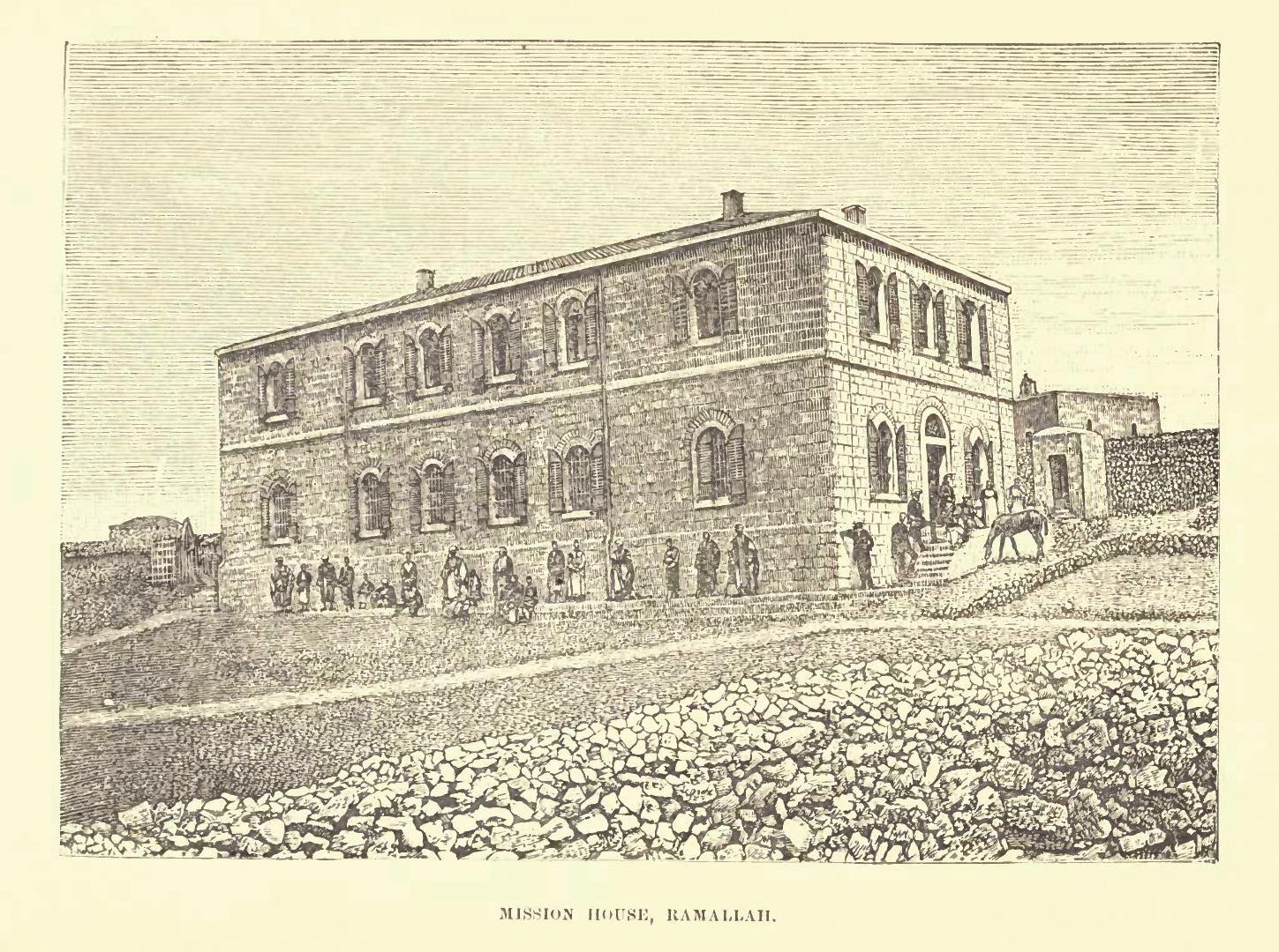 Ramallah in Palestine : Friends' Mission house